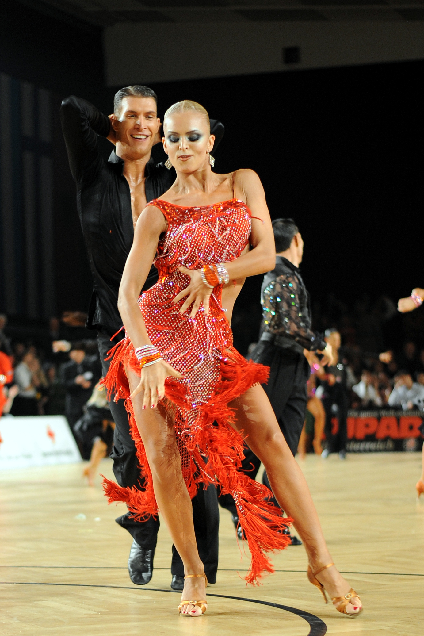 Austrian Open Championships Vienna, 2012 WDSF World Dancesport Championships Latin 16.-18. November 2012 Cha-Cha-Cha performed by Miha Vodicar and Nadiya Bychkova, Slovenia